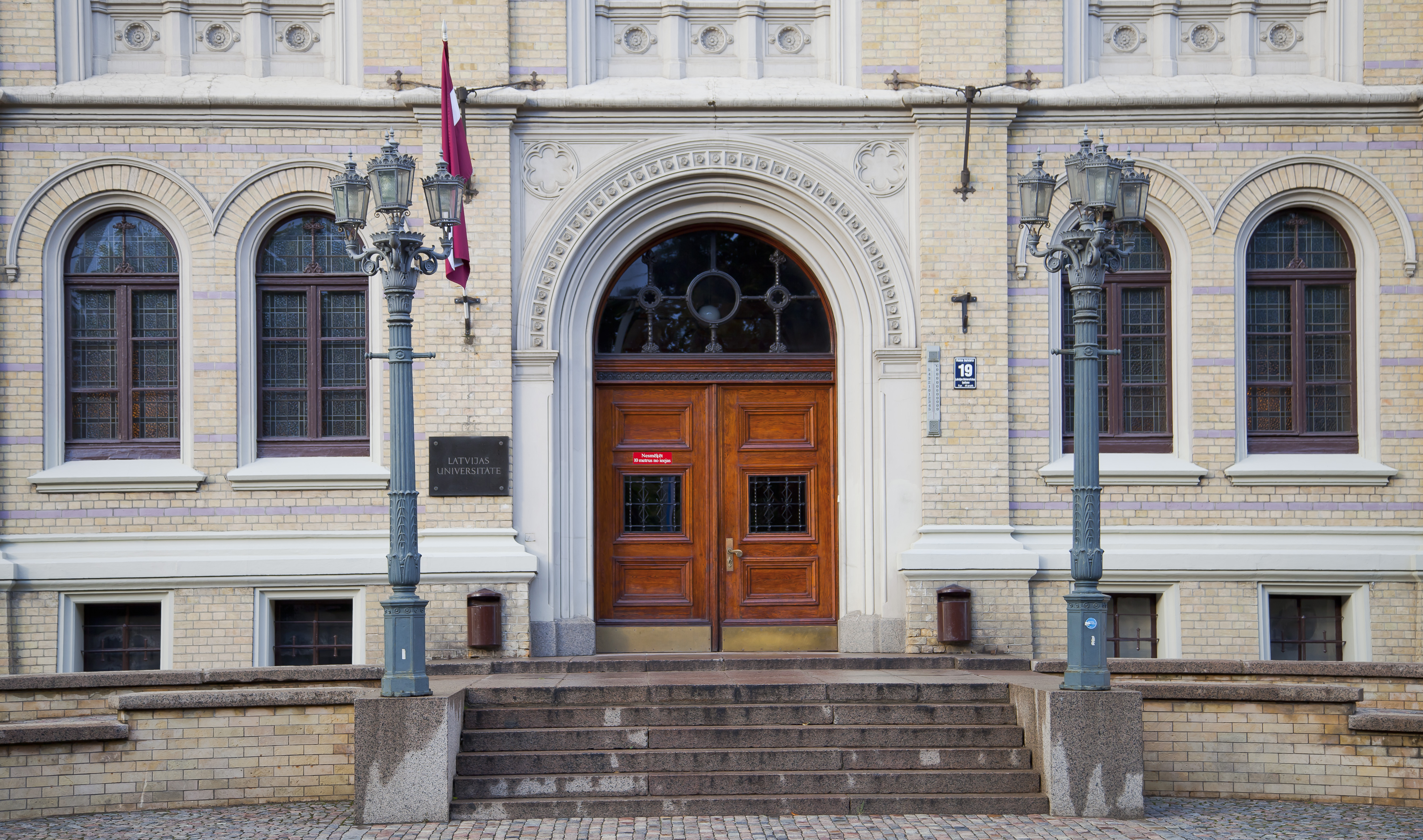 University of Latvia, Riga, Latvia